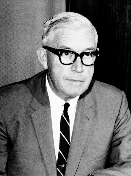 A 1964 black and white portrait of Alan Hulme, MHR for Petrie and Postmaster-General